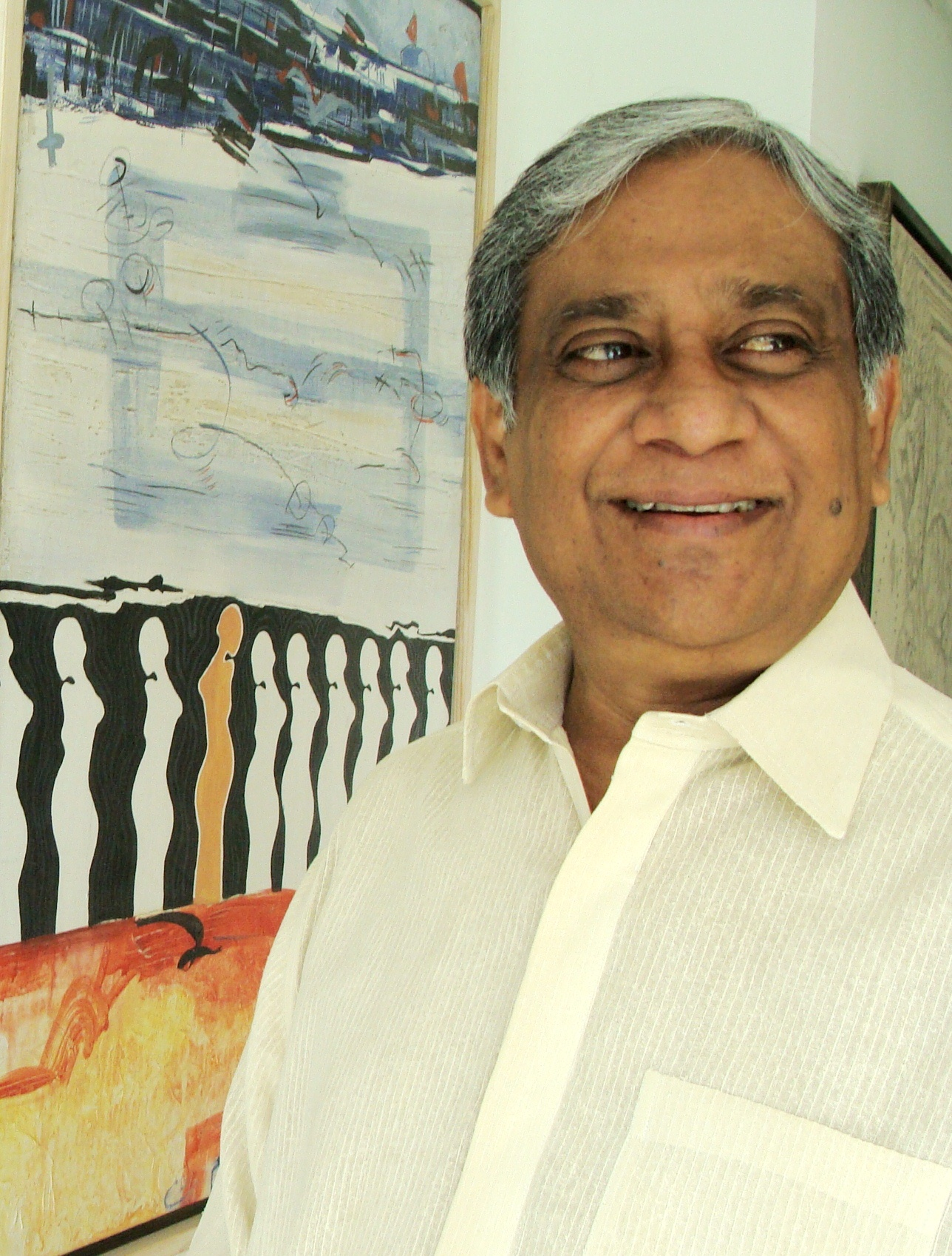 photograph of Abul Khair Litu taken in 2015